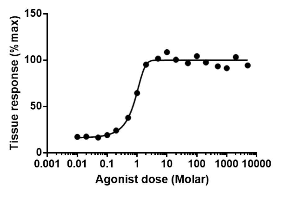 A simulated dose response curve for the stimulation of a tissue by an agonist with a log10(EC50) of 0.7. Generated in GraphPad Prism with randomised relative error of 5% and with a fitted curve following the Hill Equation.